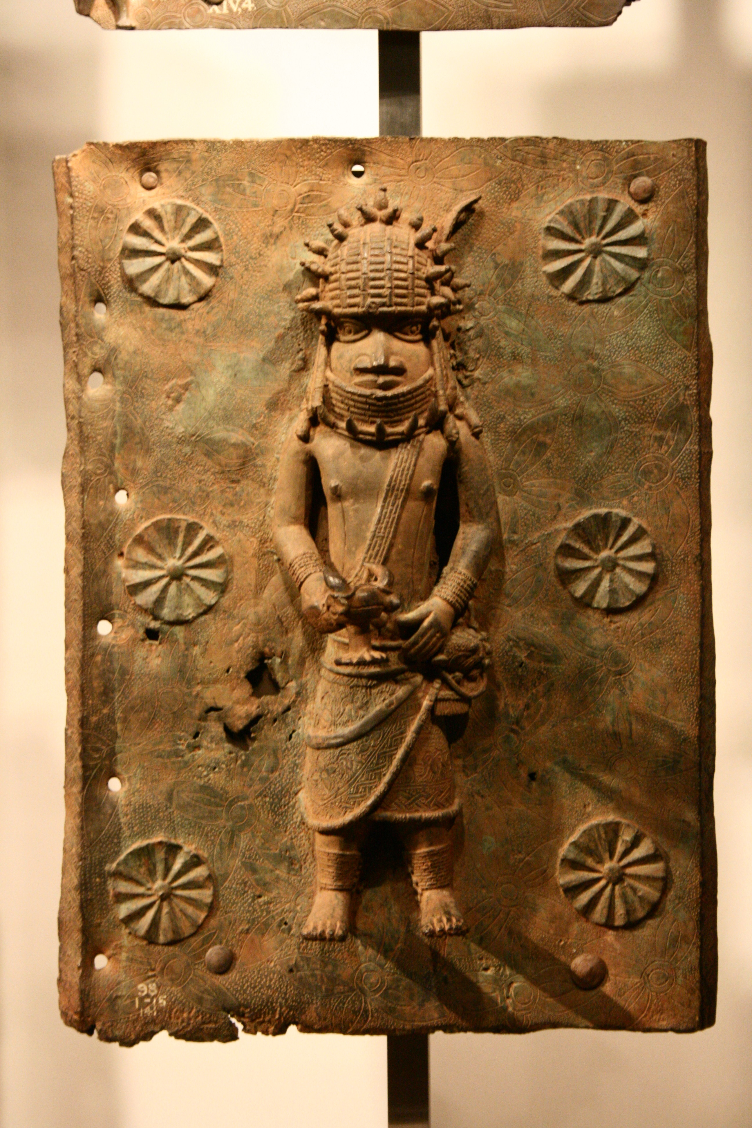 Brass plaque commonly known as "bronze". Benin kingdom (Nigeria). British Museum (London)